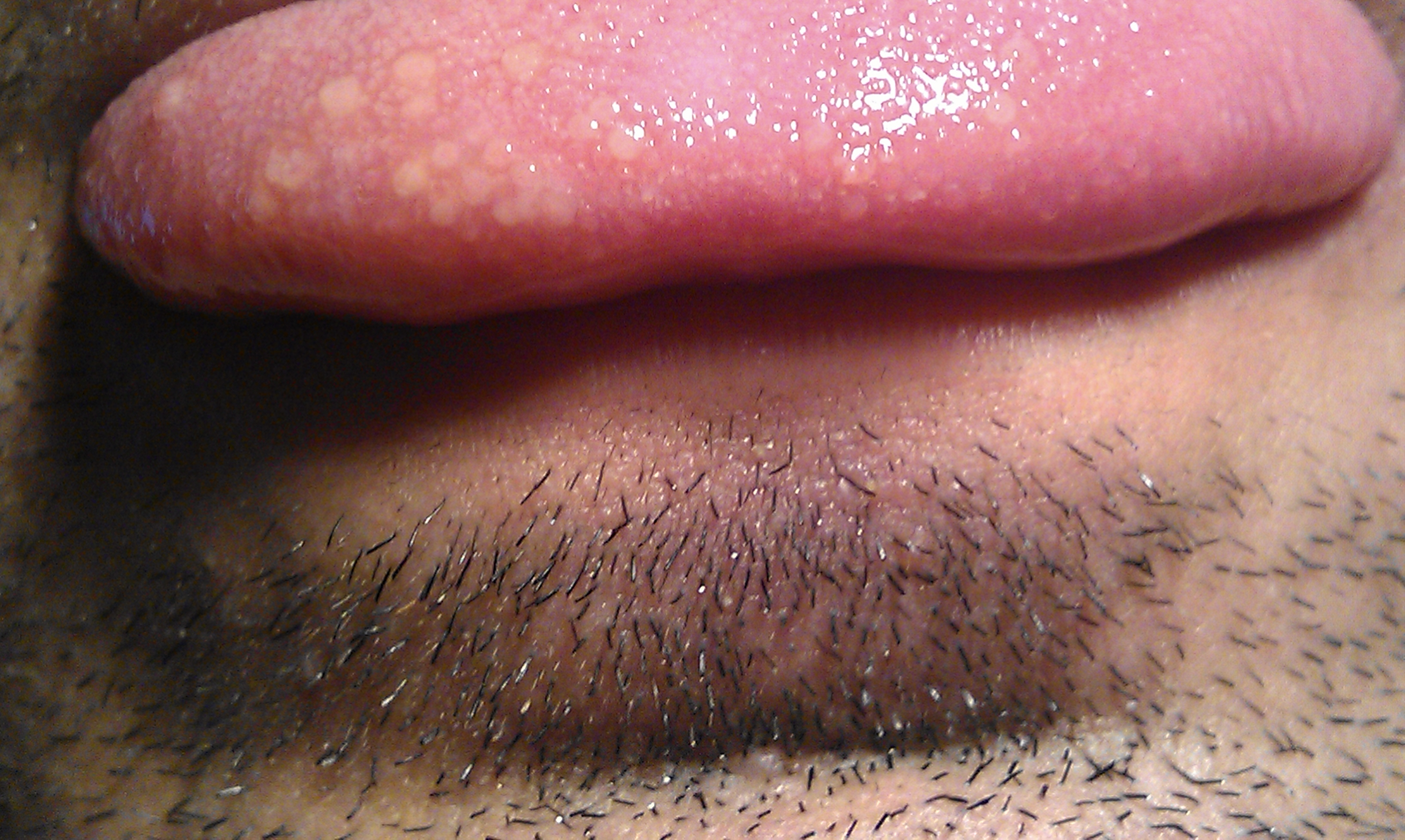 Aphthous ulcer tongue